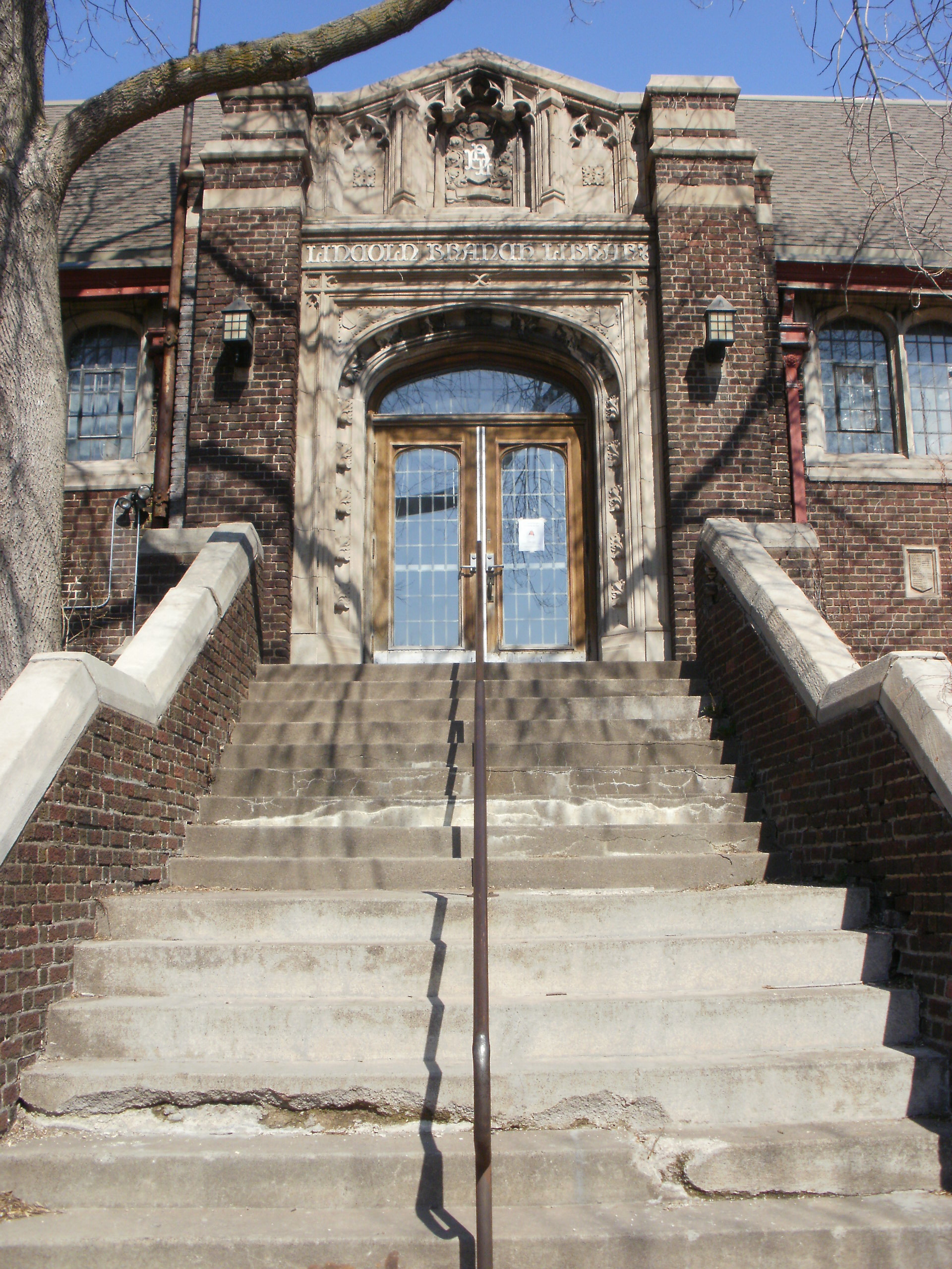 Detail of the entrance on the southeast face of the NRHP-listed Lincoln Branch Library in Duluth, Minnesota. Above the door is written "Lincoln Branch Library."